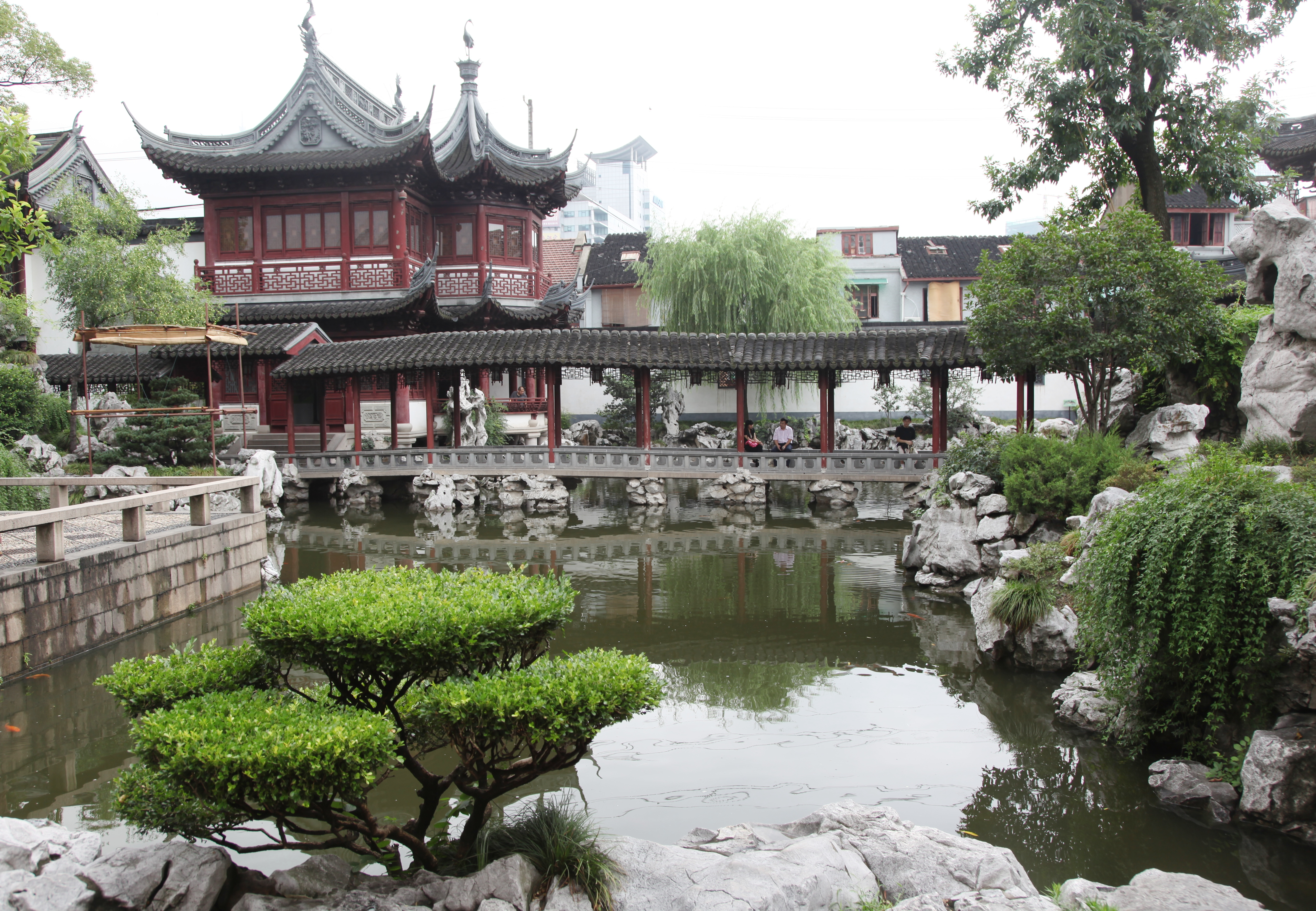 Jiyu Pond (Front), Tingtao Tower (Left) and Jade Water Corridor at Yu garden in Shanghai